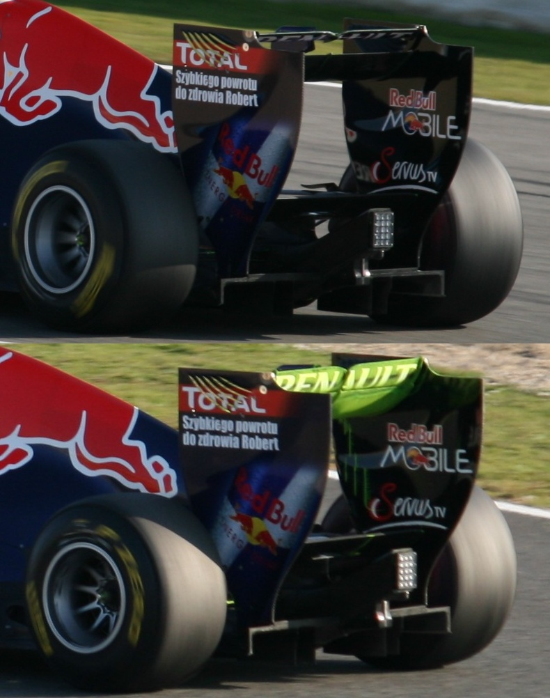 Red Bull RB7 adjustable rear wing. On second image rear wing is covered green aero paint.